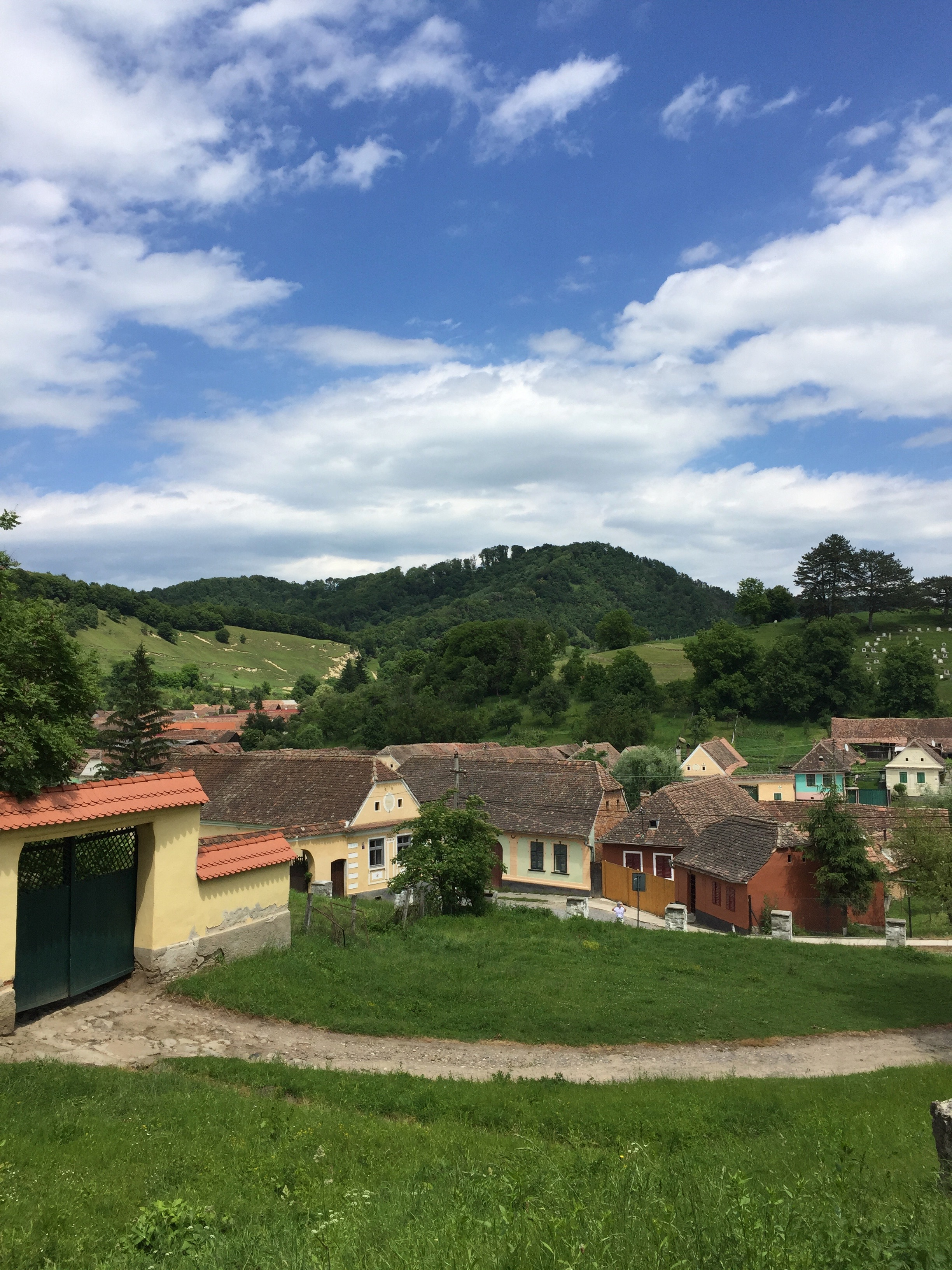 The Transylvanian Saxon village of Malmkrog (Mălâncrav), Sibiu county, Romania, June 2017